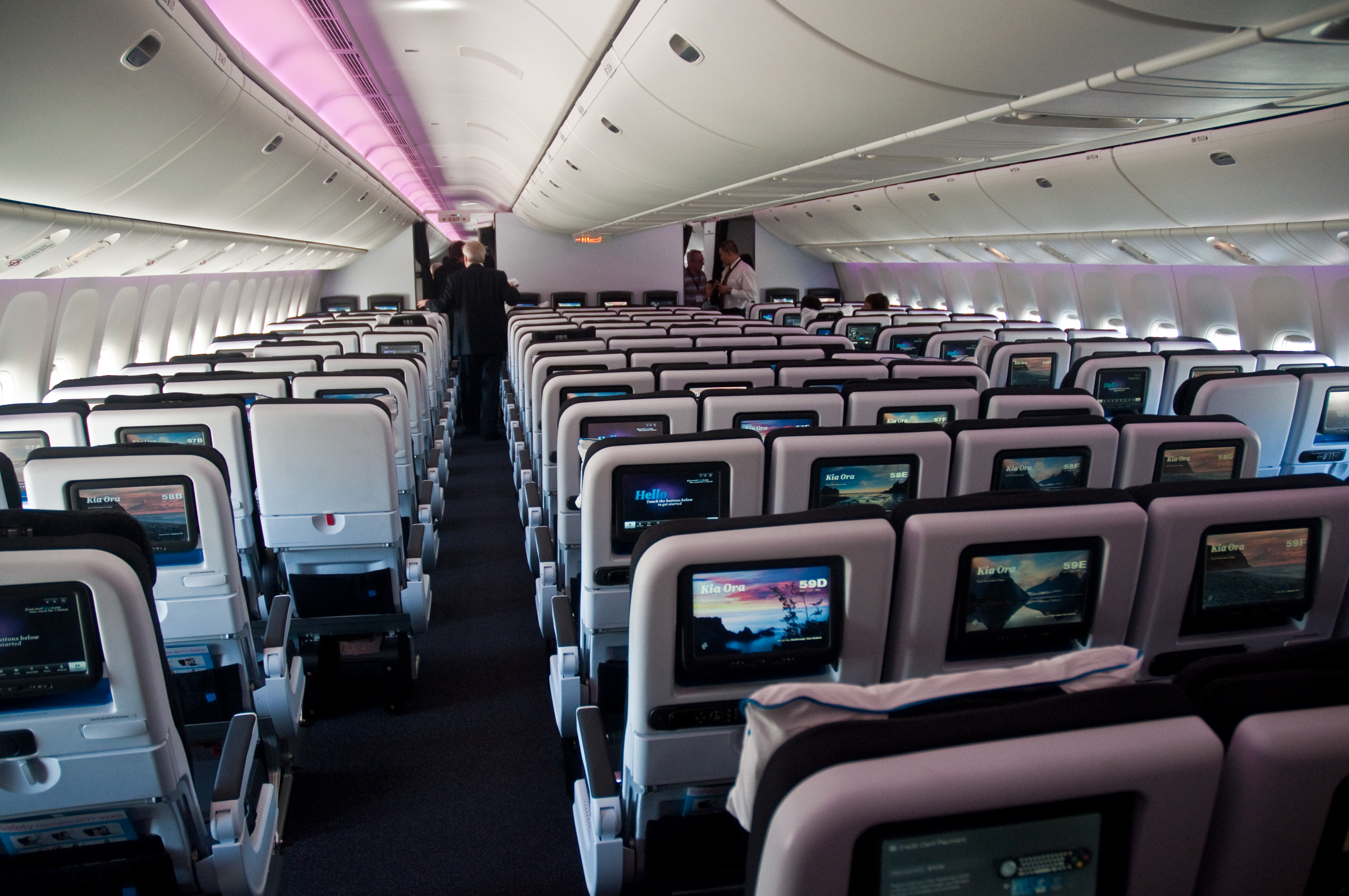 My first reaction was negative - the seats looked awfully narrow, but when you sit in them they are fine, and the lumbar support is much improved. Leg room is OK - no better and no worse than before, but at my height I never want a seat at the bulkhead!